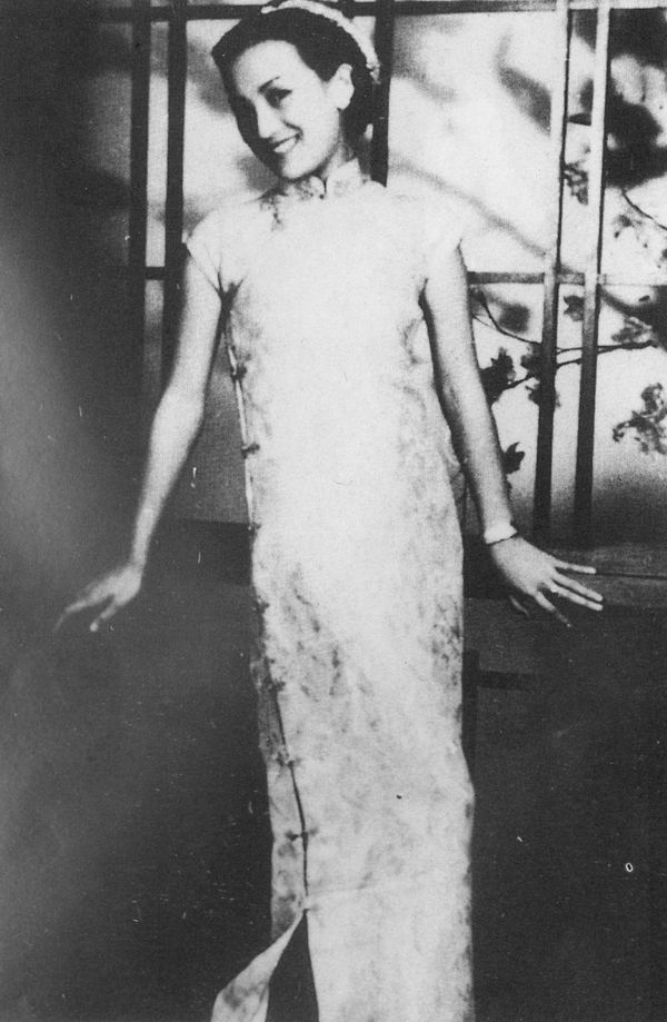 Photo of Chinese singer and actress Zhou Xuan (1918 - 1957)